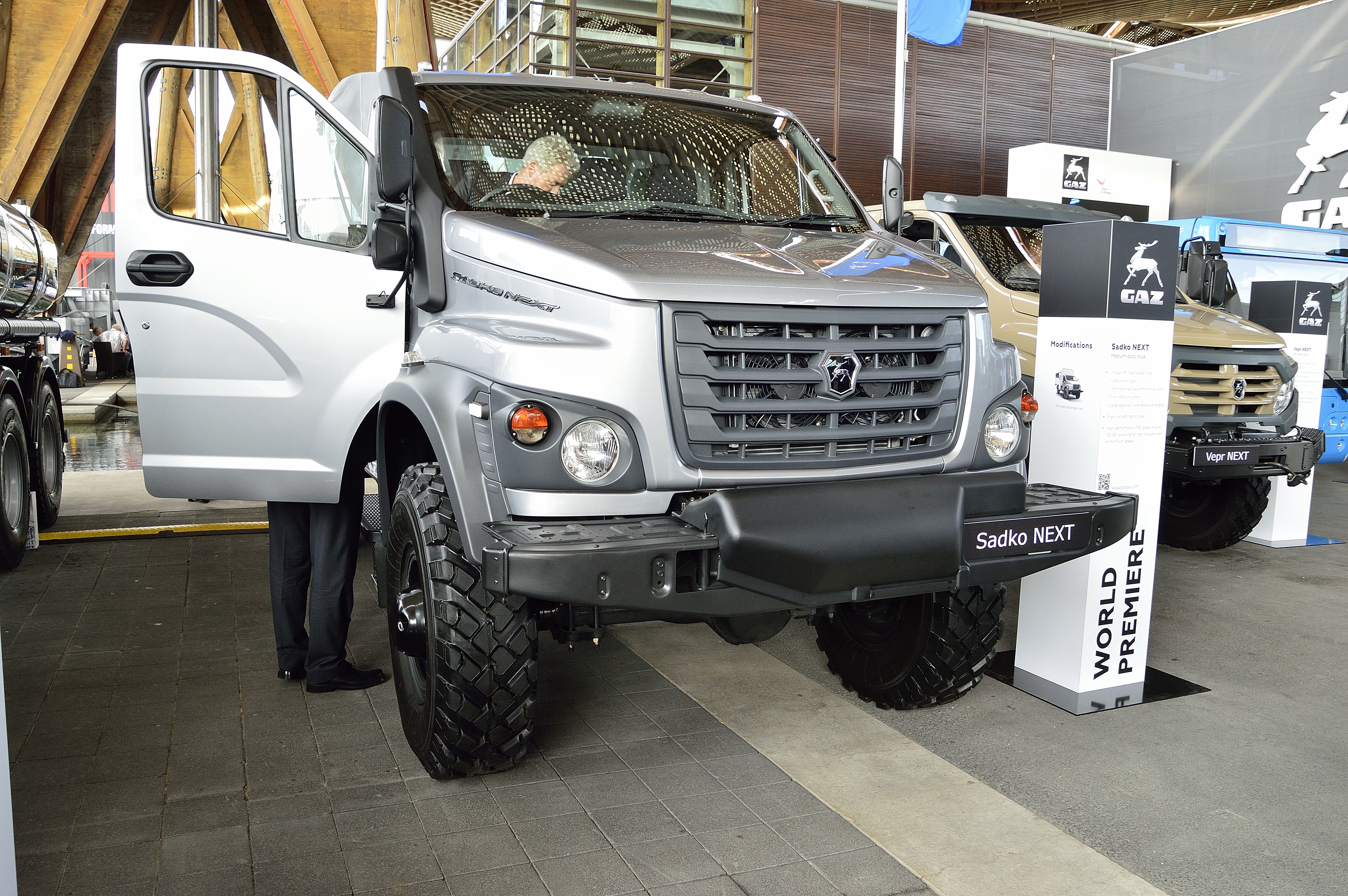 Sadko NEXT off-road medium-duty truck. With GAZ YMZ-534 diesel-engine, 110 kW (150 hp), 4-cylinder. Euro 5 (not available in the European Union). Turbocharged with intercooler. Cardan drive: Open type, three shafts. Front suspension: Two longitudinal semi-ellipsoid leaf springs with rubber and metal connection to the joints, hydraulic double-action telescopic shock absorbers. Rear suspension: Two longitudinal semi-ellipsoid leaf springs with rubber compression springs with double-action hydraulic telescopic shock absorbers. Front and rear-axle differential locks. Maximum payload 2,500 kg. Wheels: Disk-type, with rim 18-inch steel wheels, bead rings and a lock split ring. Number of fastening pins of each wheel: 6. Payload 2,500 kg.